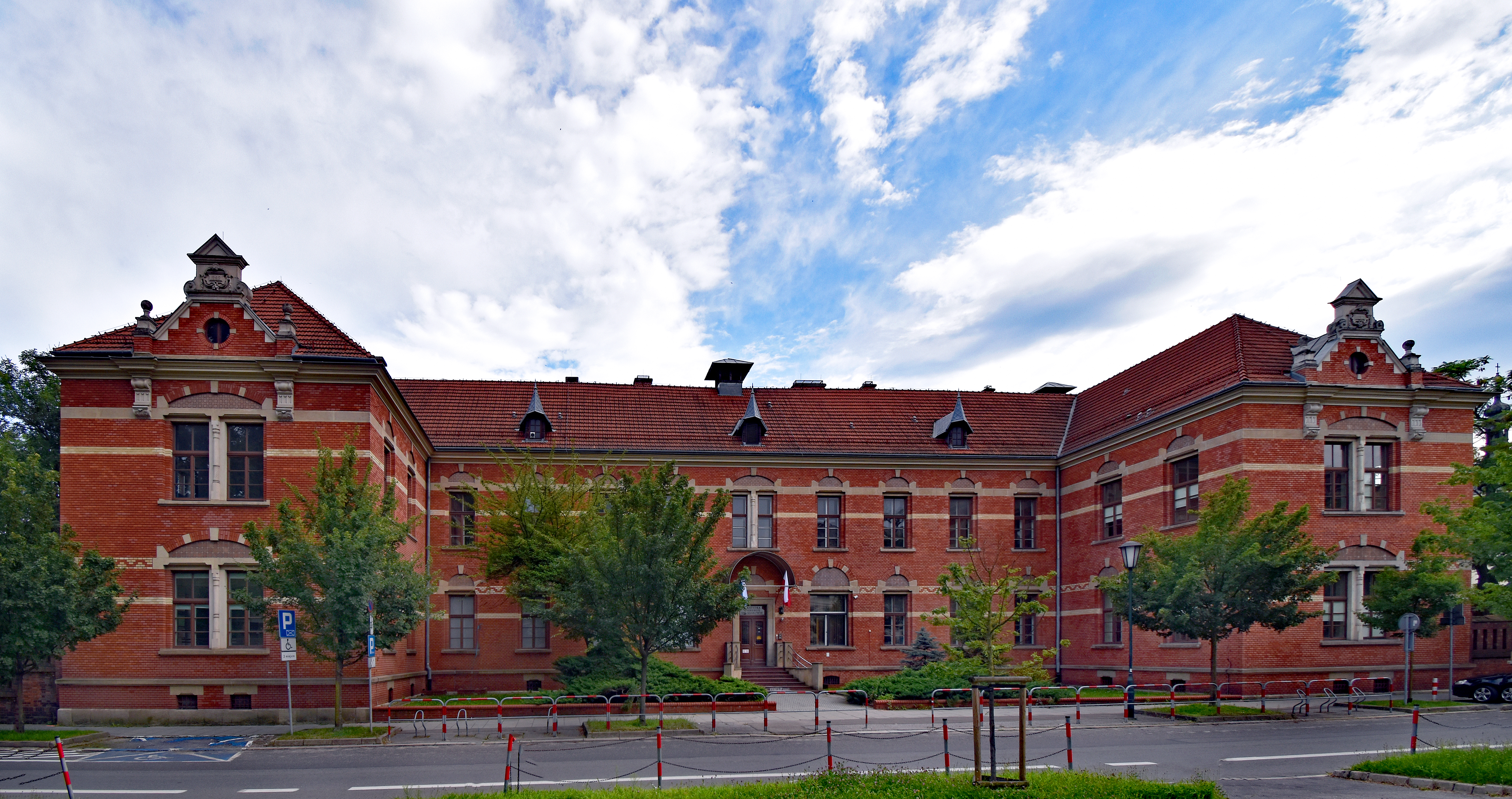 Jagiellonian University Medical College, University Hospital, II Cathedra and Chirurgy Clinic (1891, by arch. Karol Zaremba), 21 Kopernika street, Krakow, Poland